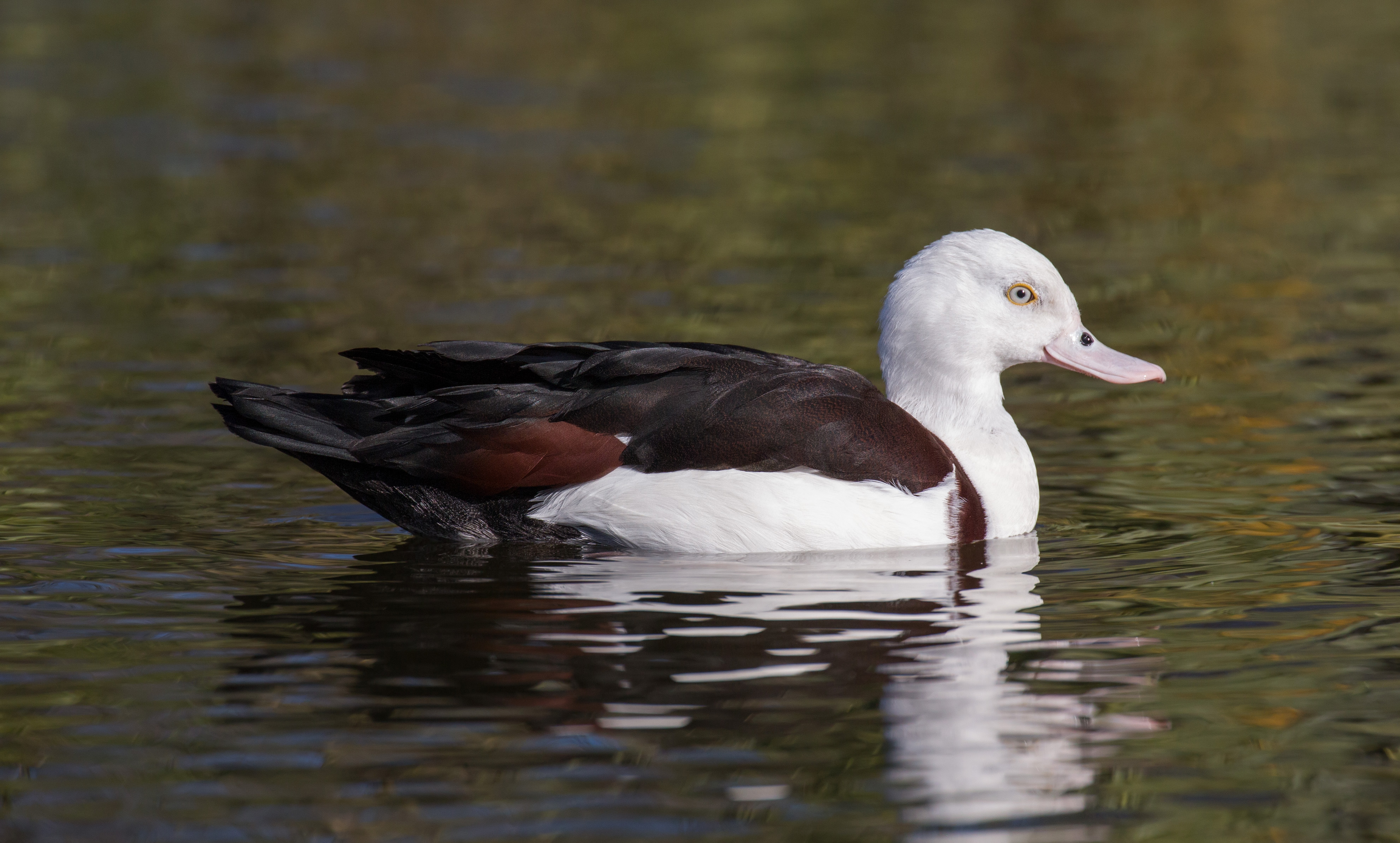 The Raja Shelduck, at the London Wetlands Centre, London, UK.